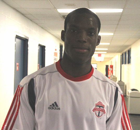 Quillan Roberts after morning practice on April 24, 2012.